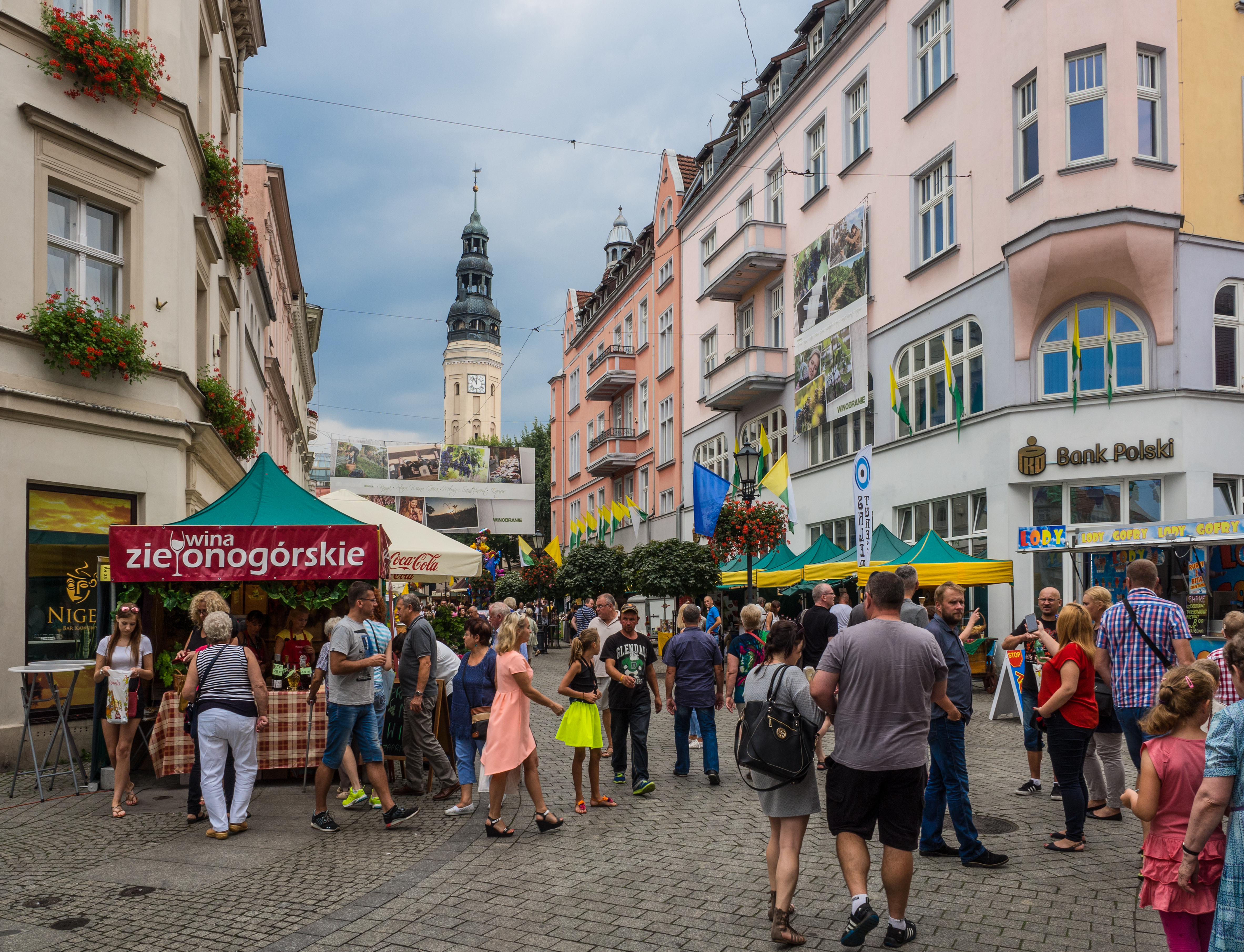 Zielona Góra - Stare Miasto